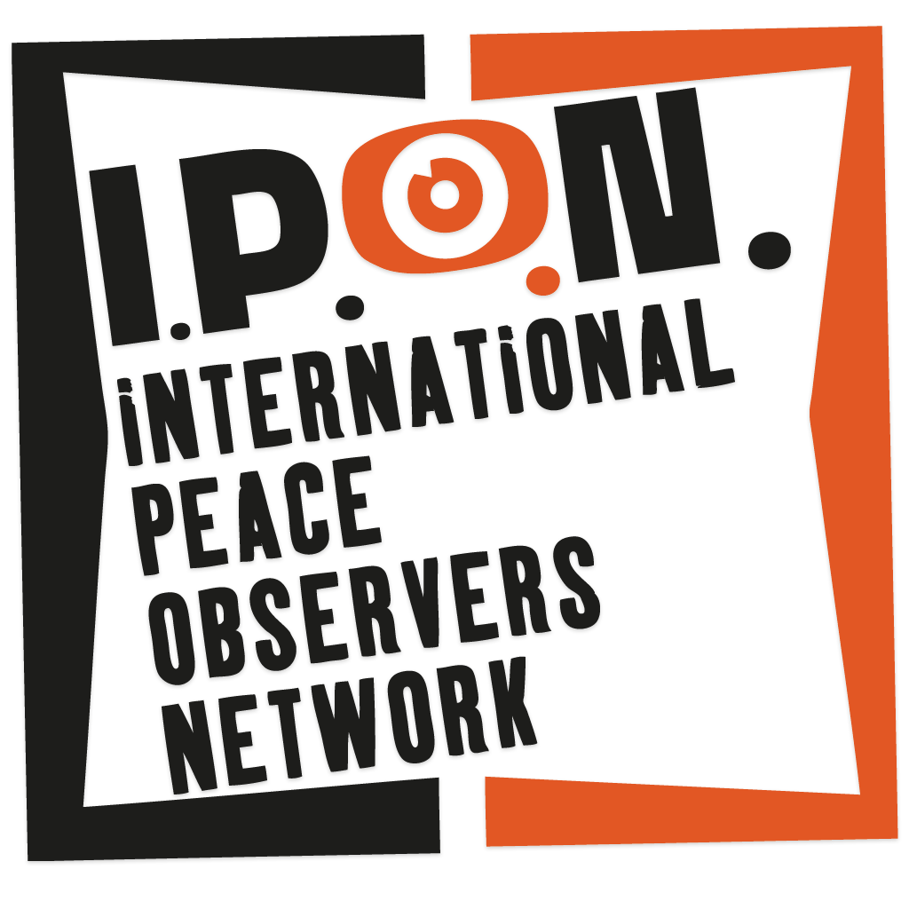 International Peace Observers Network (IPON) word mark